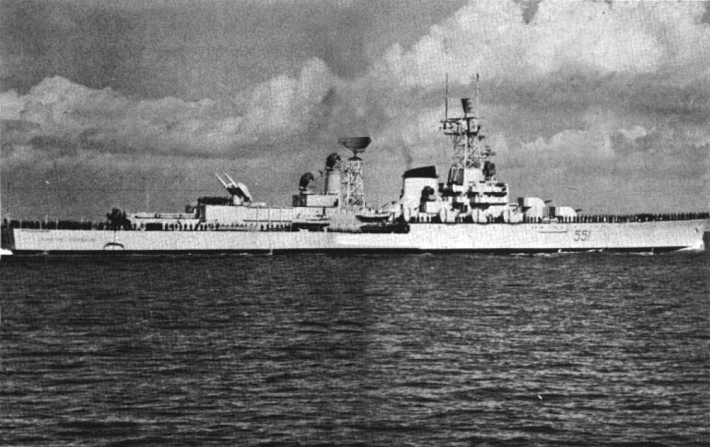 The Italian guided missile cruiser Giuseppe Garibaldi (C551) underway, circa 1962.